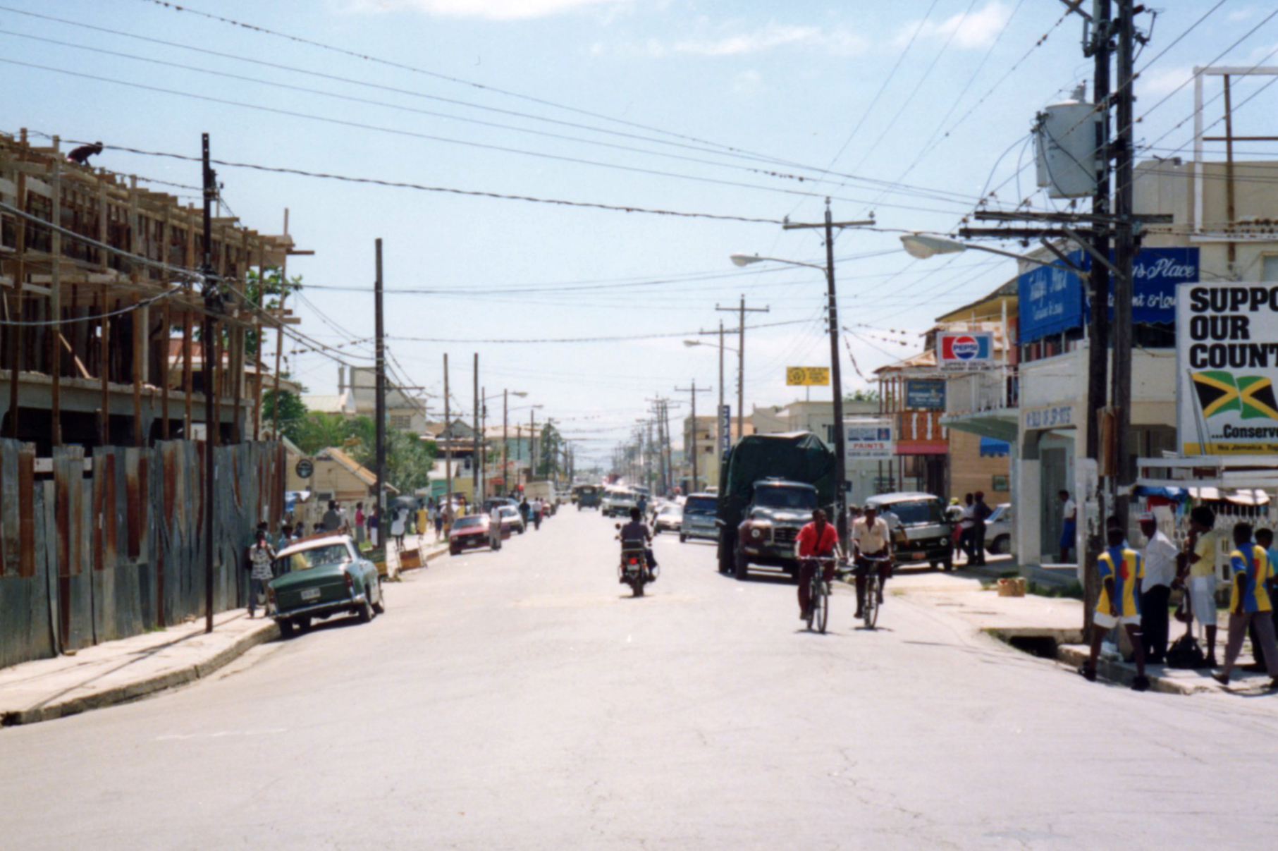 Great George Street, Savanna-la-Mar (Jamaica), in October 1990.